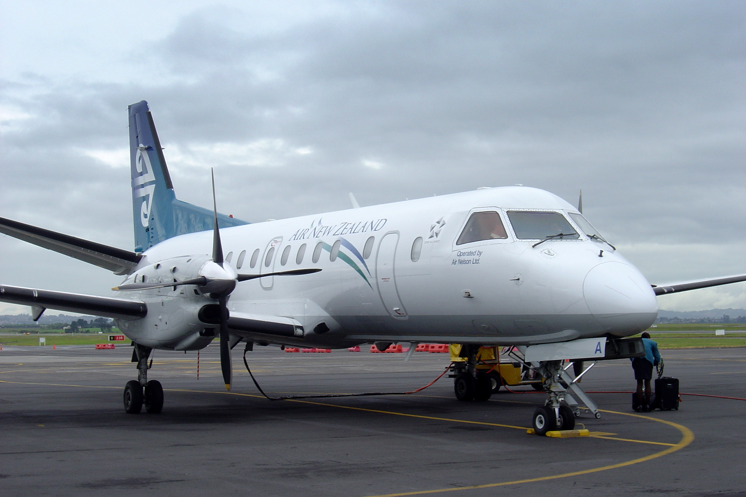 Air Nelson Saab 340 airliner, operating under the Air New Zealand Link brand